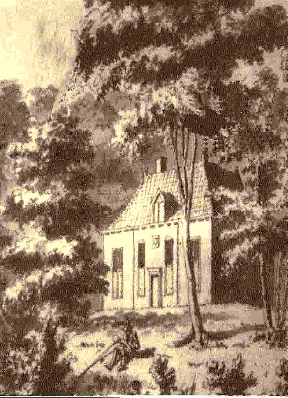 Castle Stoutenburg in 1729